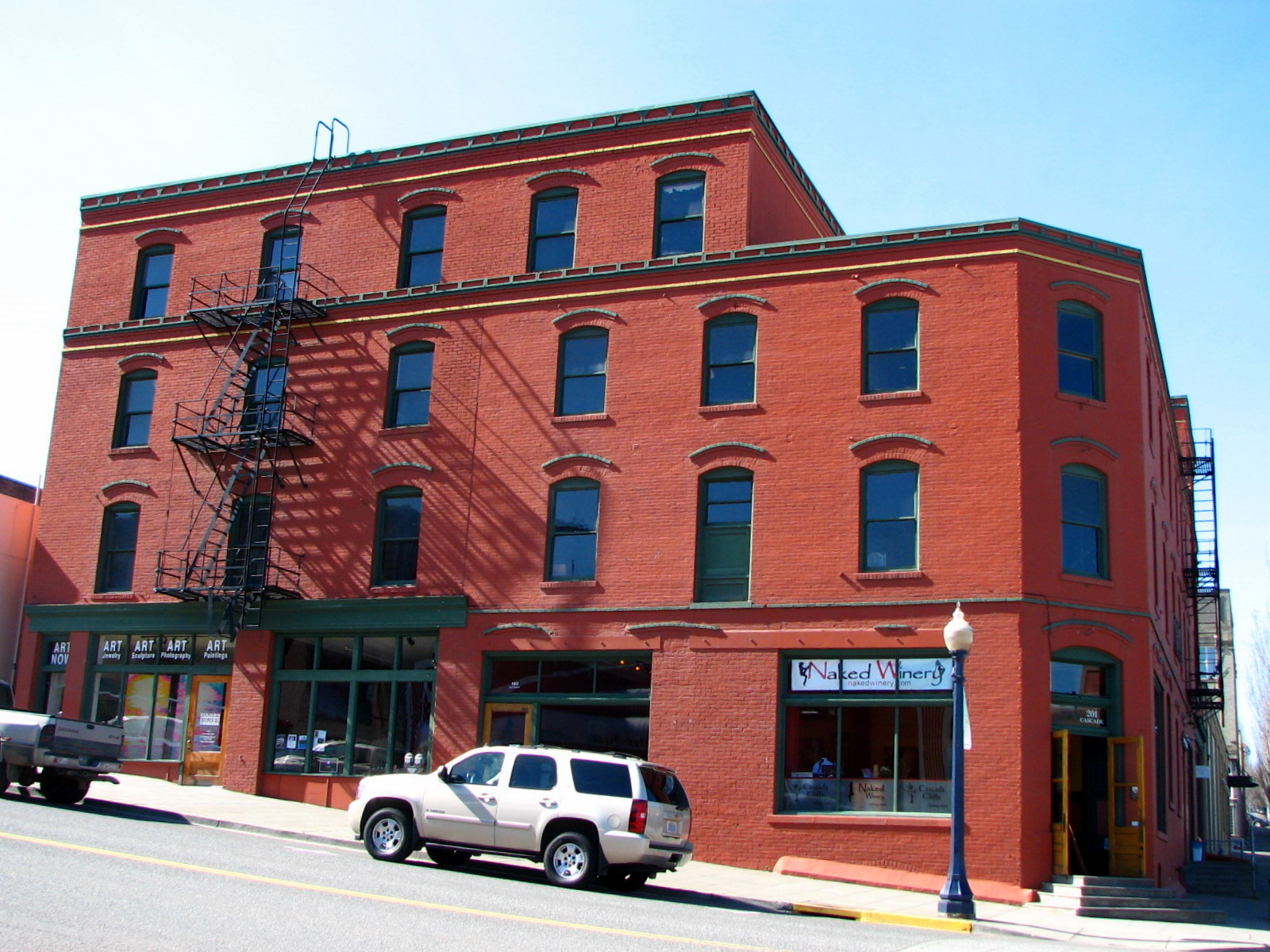 The historic Waucoma Hotel (built 1904), located at 102-108 2nd Street in Hood River, Oregon, United States, is listed on the US National Register of Historic Places. The building is no longer operated as a hotel.